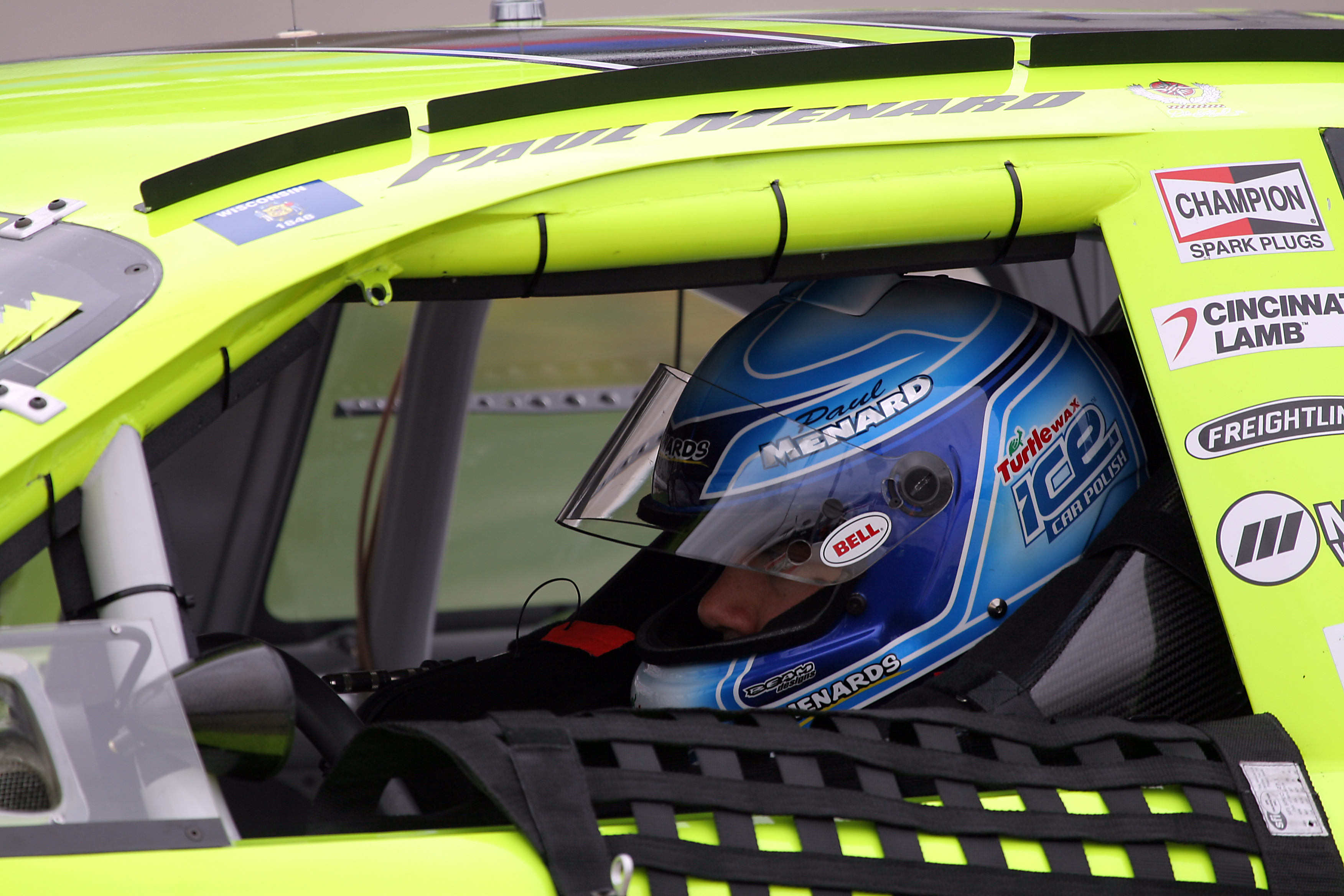 NASCAR driver Paul Menard at Texas Motor Speedway